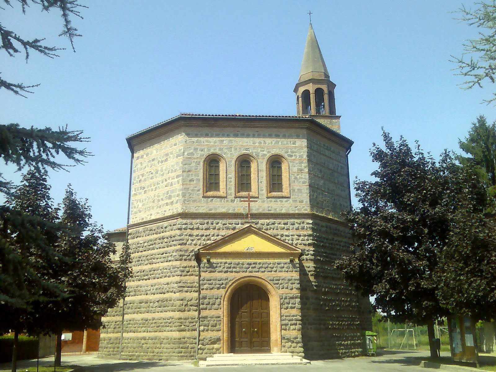 Holy Cross Church of Deserto, Italy